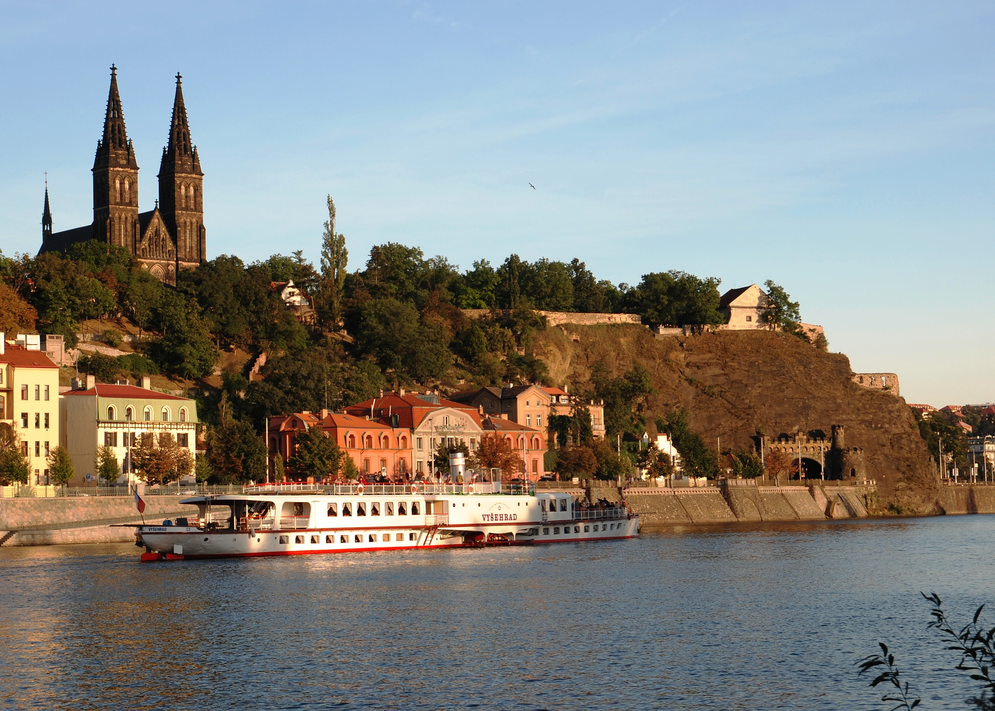 Paddle steamer Vyšehrad under Vyšehrad rock